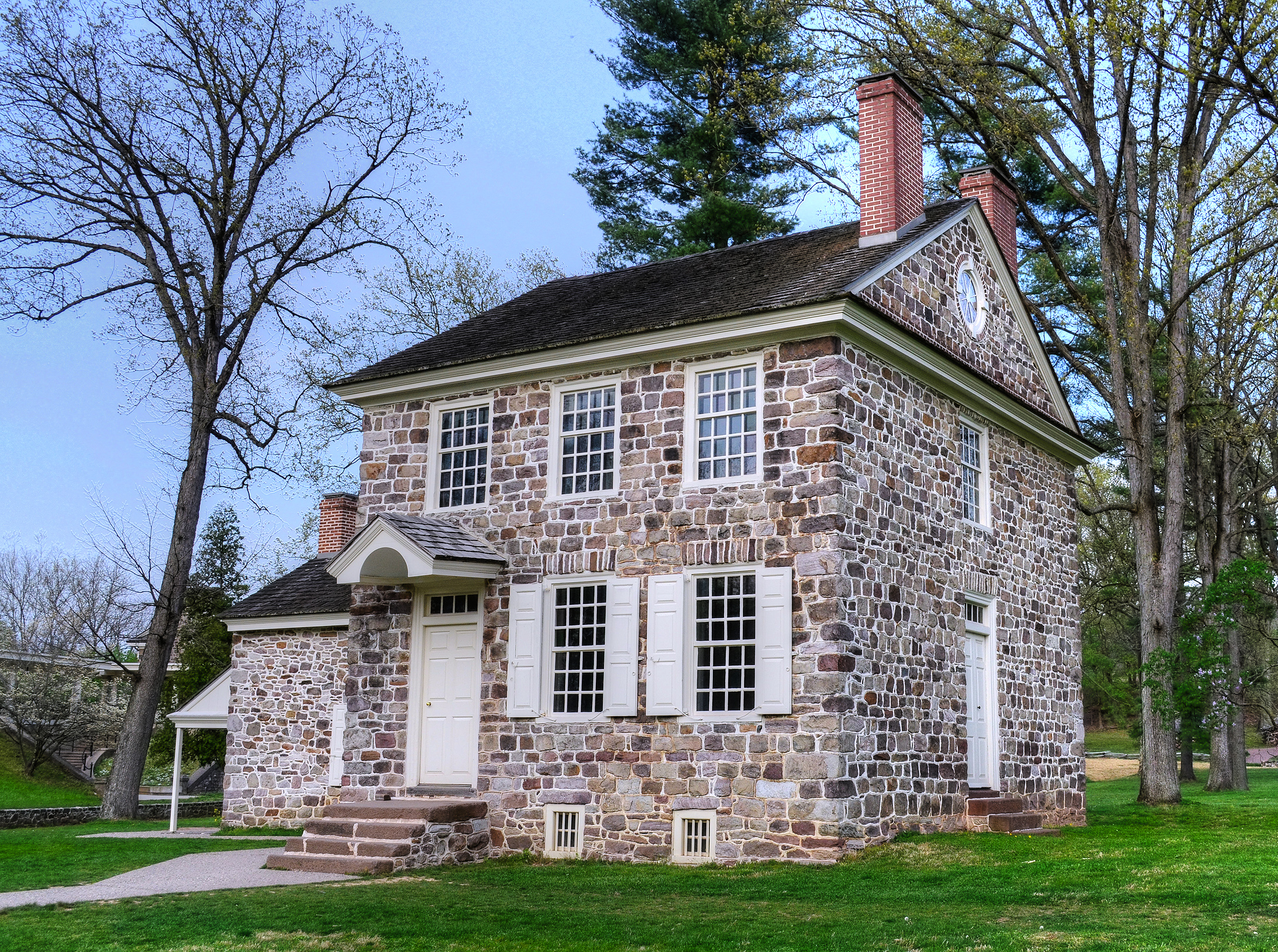 Issac Potts' house was General George Washington's headquarters in the winter of 1777 at Valley Forge, PA.